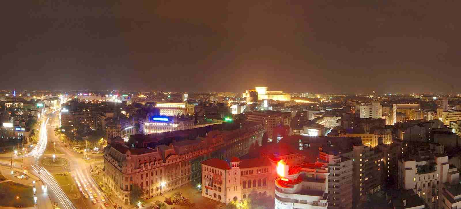 Bucarest at night